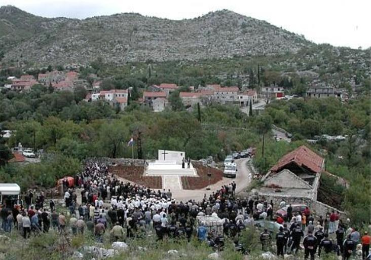 Village Osojnik near Dubrovnik